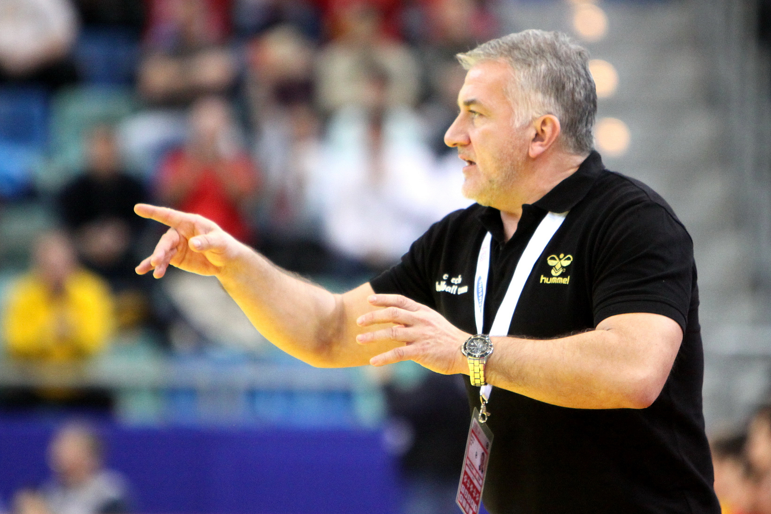 Martin Lipták (Teamchef), Czech Republic national handball team